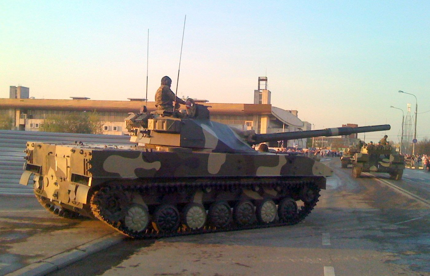 A Russian 2S25 Sprut-SD at the Russian May 2009 Parade.